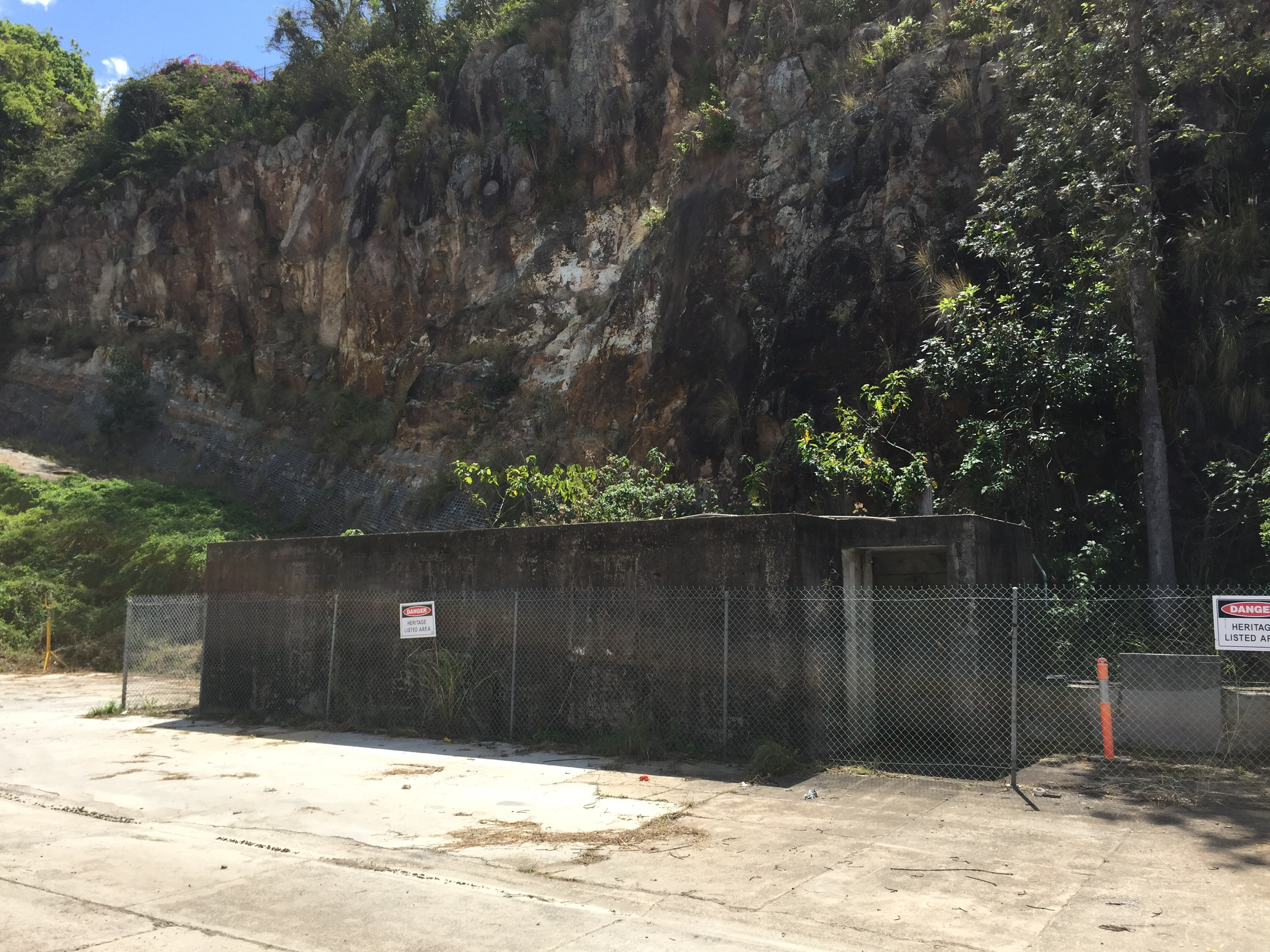 Air raid shelters adjacent to Howard Smith Wharves in Fortitude Valley, Brisbane